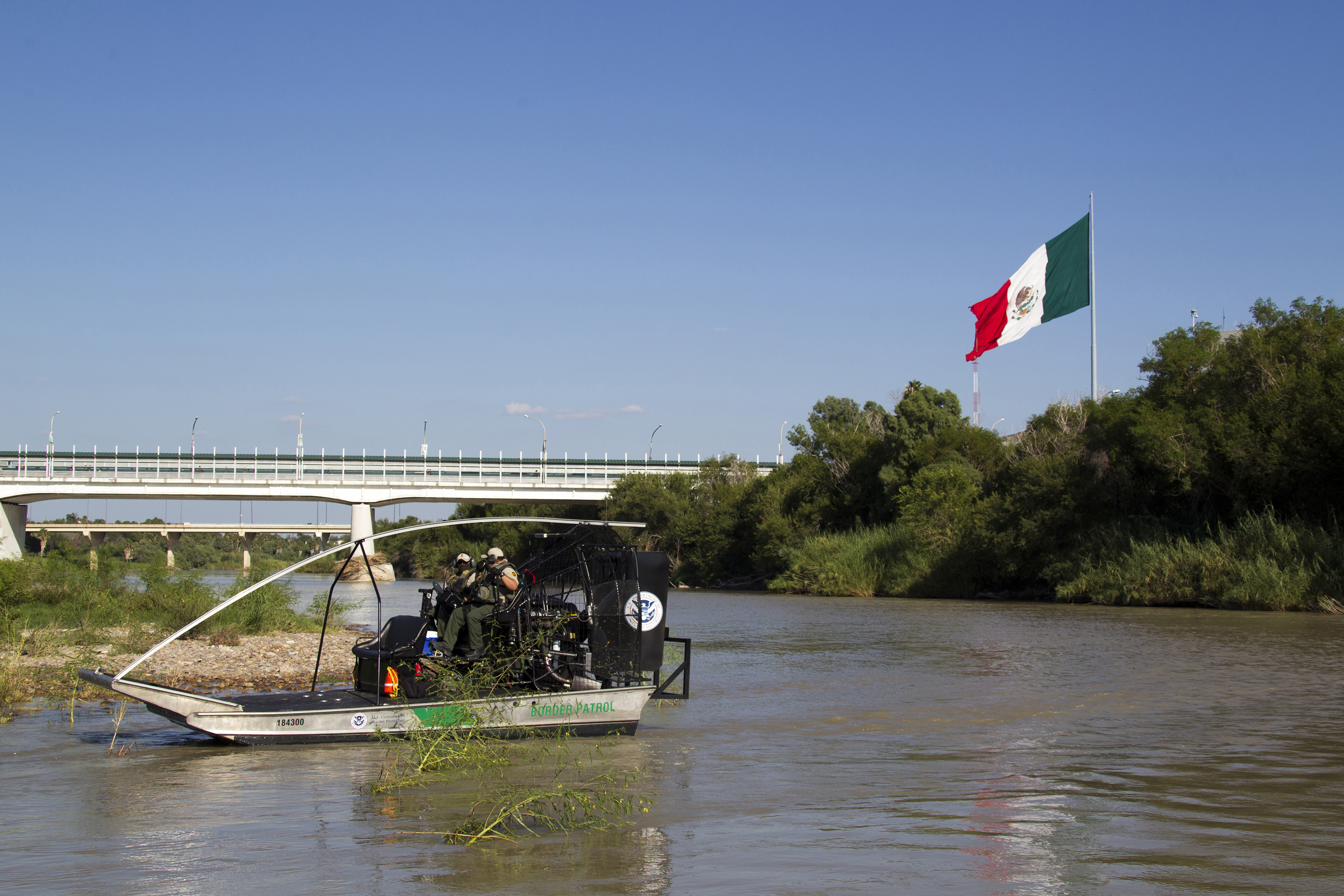 A Border Patrol Riverine Unit conducts patrols in an Air and Marine Air-Boat in South Texas, Laredo, along the Rio Grande Valley river on September 26, 2013. Photographer: Donna Burton